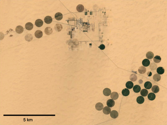 Irrigation in the Heart of the Sahara (Egypt) Although it is now the largest desert on Earth, during the last ice age the Sahara was a savannah with a climate similar to that of present-day Kenya and Tanzania. The annual rainfall was much greater than it is now, creating many rivers and lakes that are now hidden under shifting sands or exposed as barren salt flats. Over several hundred thousand years the rains also filled a series of vast underground aquifers. Modern African nations are now mining this fossil water to support irrigated farming projects. The above pair of images shows a small settlement just north of the border between Egypt and Sudan. The dark circles—each about a kilometer across—indicate central-pivot irrigation. A well drilled in the center of each circle supplies water to a rotating series of sprinklers. Rainfall in this area of the Sahara is only a few centimeters a year, so the aquifers will take thousands of years (or longer) to recharge, making the water a non-renewable resource. Although no one knows how much water is beneath the Sahara, hydrologists estimate that it will only be economical to pump water for fifty years or so. On the other hand, alternative technologies for providing fresh water in this arid region—primarily desalinization—are too expensive for widespread use. Sudan, Libya, Chad, Tunisia, Morocco and Algeria are some of the other Saharan nations irrigating with fossil water, but the practice is not limited to Africa. In the southern plains of the United States, the Ogallala aquifer is being drained faster than it can be replenished. These true-color images were acquired by the Enhanced Thematic Mapper plus (ETM+) aboard NASA’s Landsat 7 satellite. The Landsat satellites enable scientists to monitor land use and land cover change dating back to 1972. Landsat 7 is designed to last until at least 2004, and follow-on missions are currently being planned.